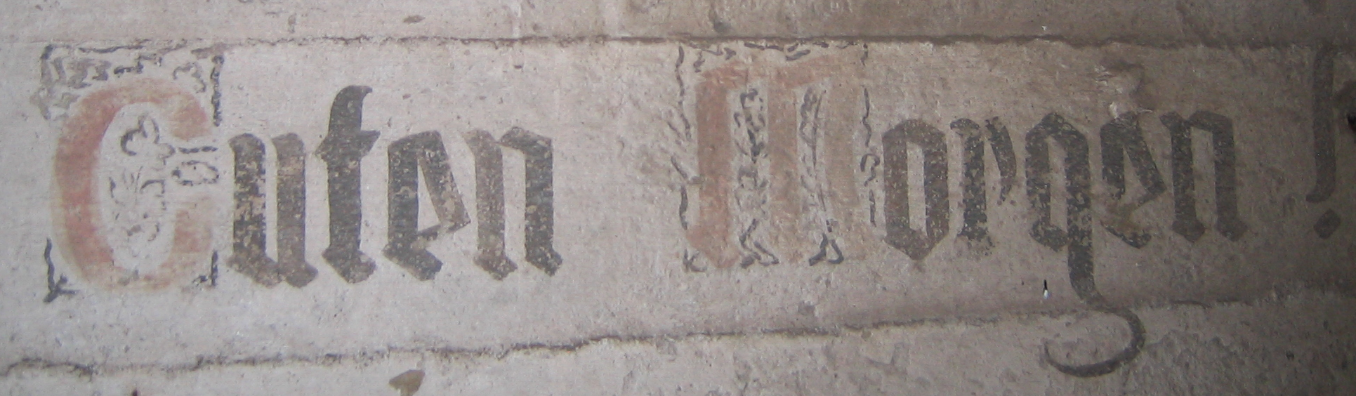 "Guten Morgen" ("Good morning"), painted on the wall of a bunker at Fjell Fortress, most likely by the german soldiers who slept and lived in that bunker during exersises and when on alert.